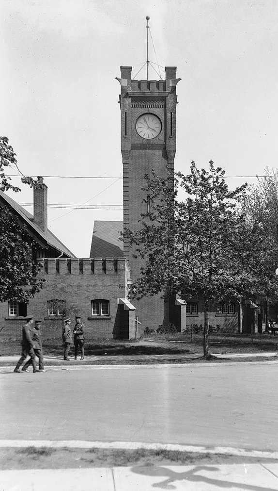 CNE Fire Tower